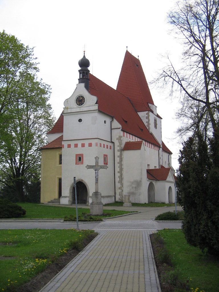 St Nicholas church in village of Horní Stropnice by Nové Hrady, České Budějovice District, Czech Republic.